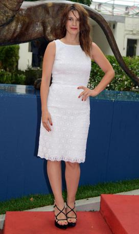 Italian actress Valentina Cervi at the premiere of the movie Acciaio during the 69th Venice Film Festival, 3 September 2012.